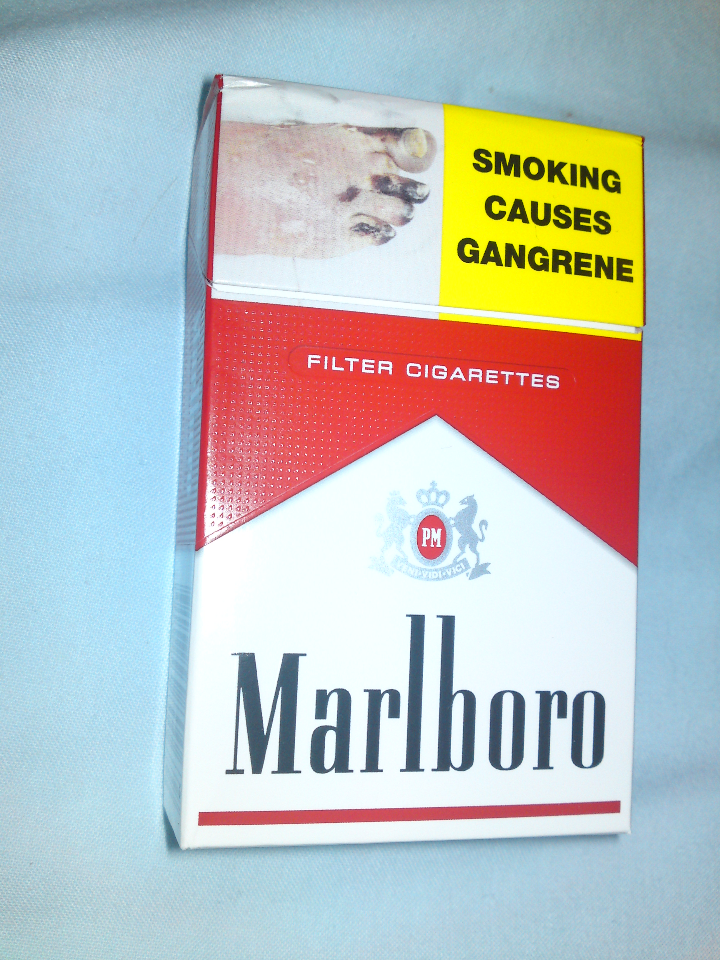 The front of 20 pack Marlboro red cigarettes. The pack shows typical New Zealand required warning messages.